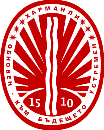 Emblem of Harmanli, Bulgaria